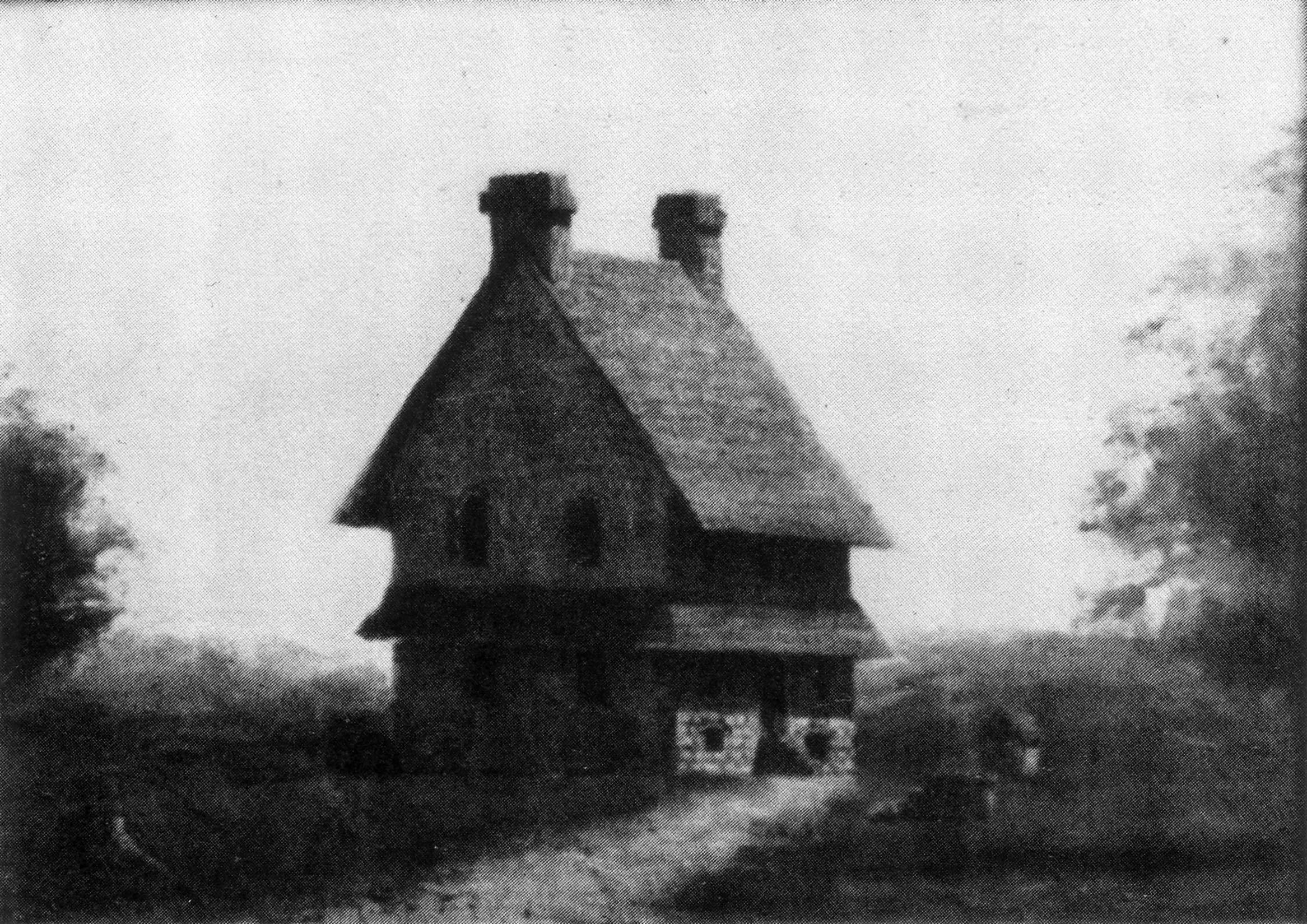 The Brinton House, G177-A